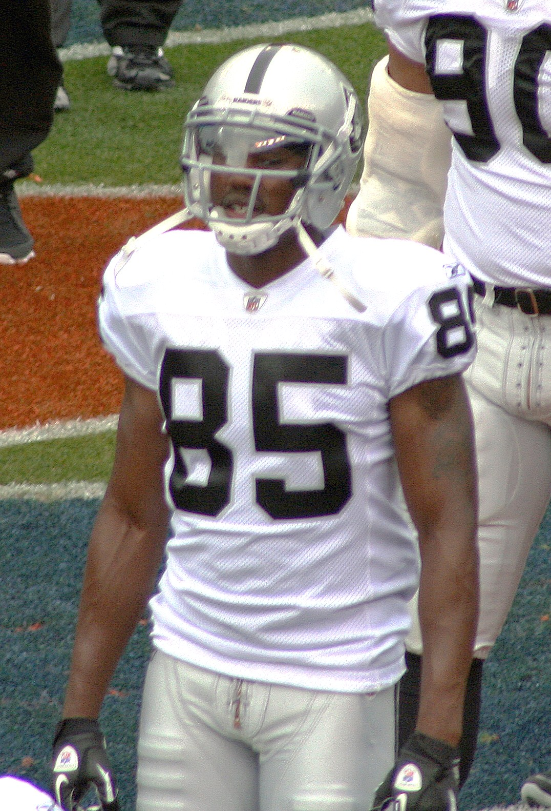 Darrius Heyward-Bey, a player on the Oakland Raiders American football team.